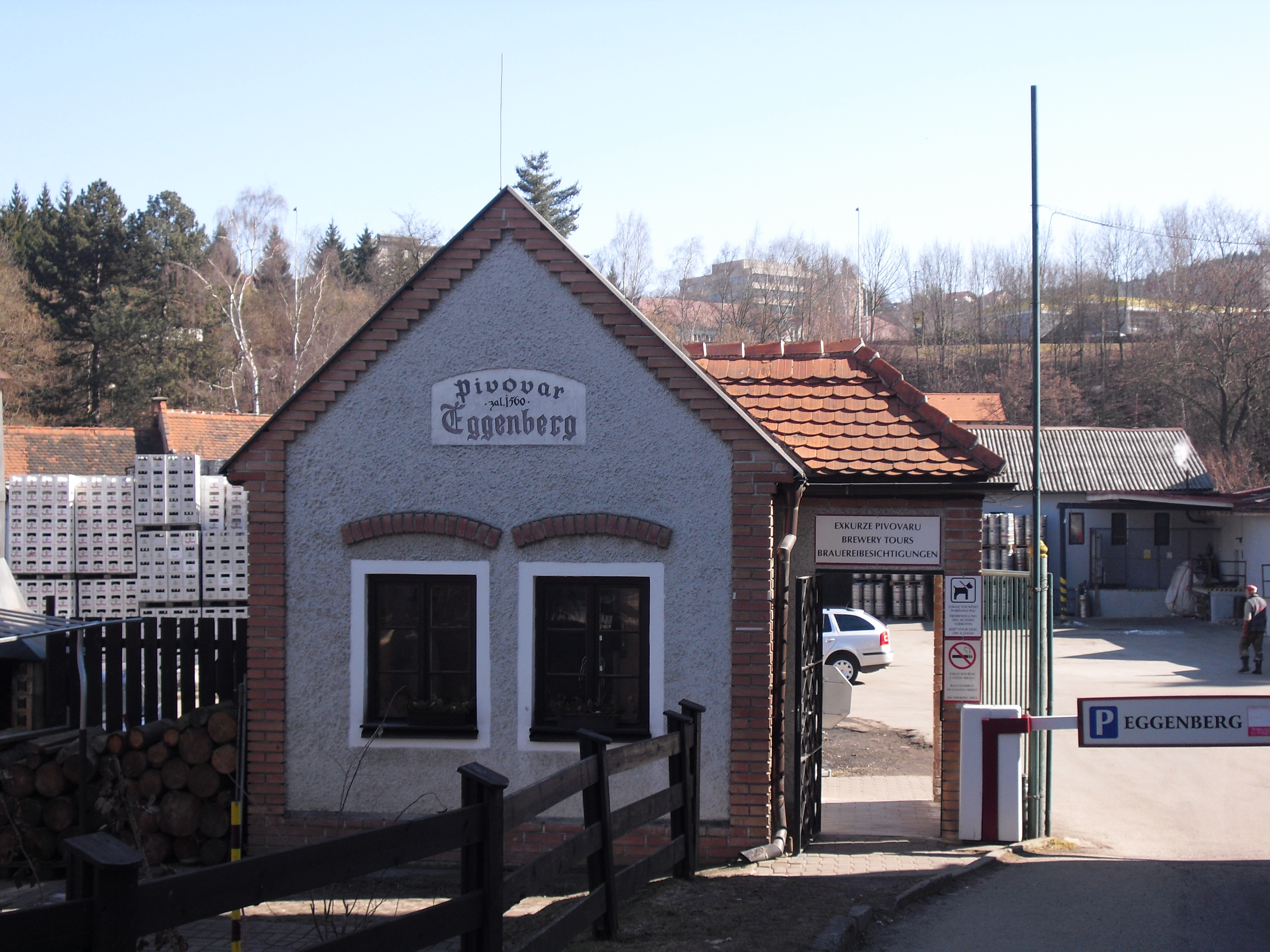 Picture of the Eggenberg brewery in the Czech Republic